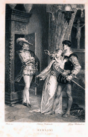 Act 1 Victor Hugo-Hernani